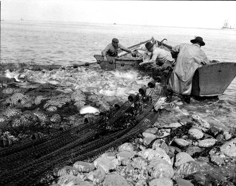 From John Cobb field notebook: Hauling salmon seine, Karluk, June 1906 . Filed in Folder 97 Subjects (LCTGM): Fishermen--Alaska--Karluk; Rowboats--Alaska--Karluk; Fishing industry--Alaska--Karluk Subjects (LCSH): Seining--Alaska--Karluk; Salmon industry--Alaska--Karluk